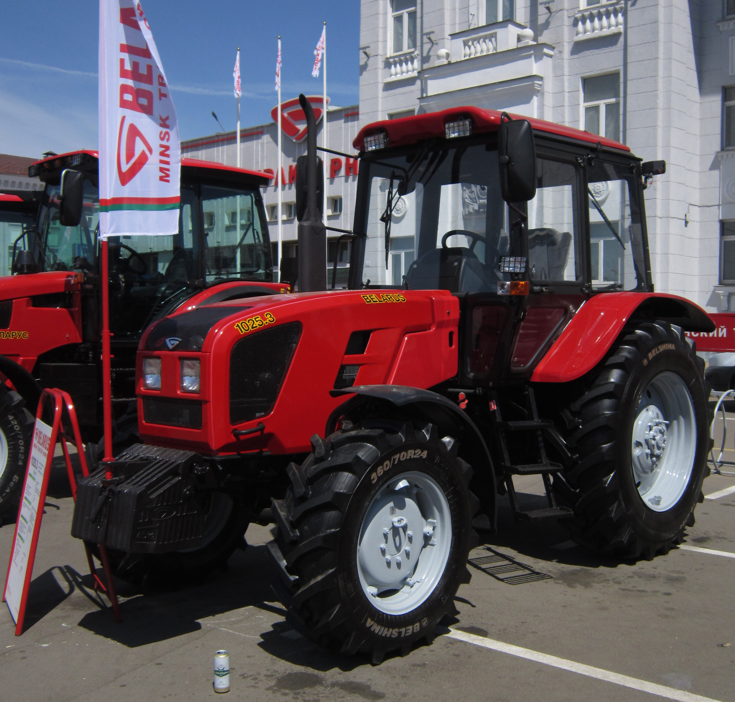 Minsk Tractor Works Open Day 2017. Tractor Belarus (MTZ) 1025.3